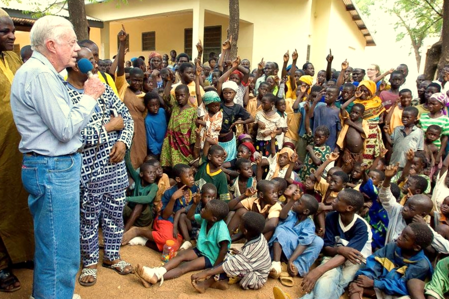 Original caption: “President Jimmy Carter during a 2007 visit to Savelugu Hospital in Ghana. President Carter and the Carter Center played a huge role in Ghana's fight in eradicating Guinea Worm Disease.”